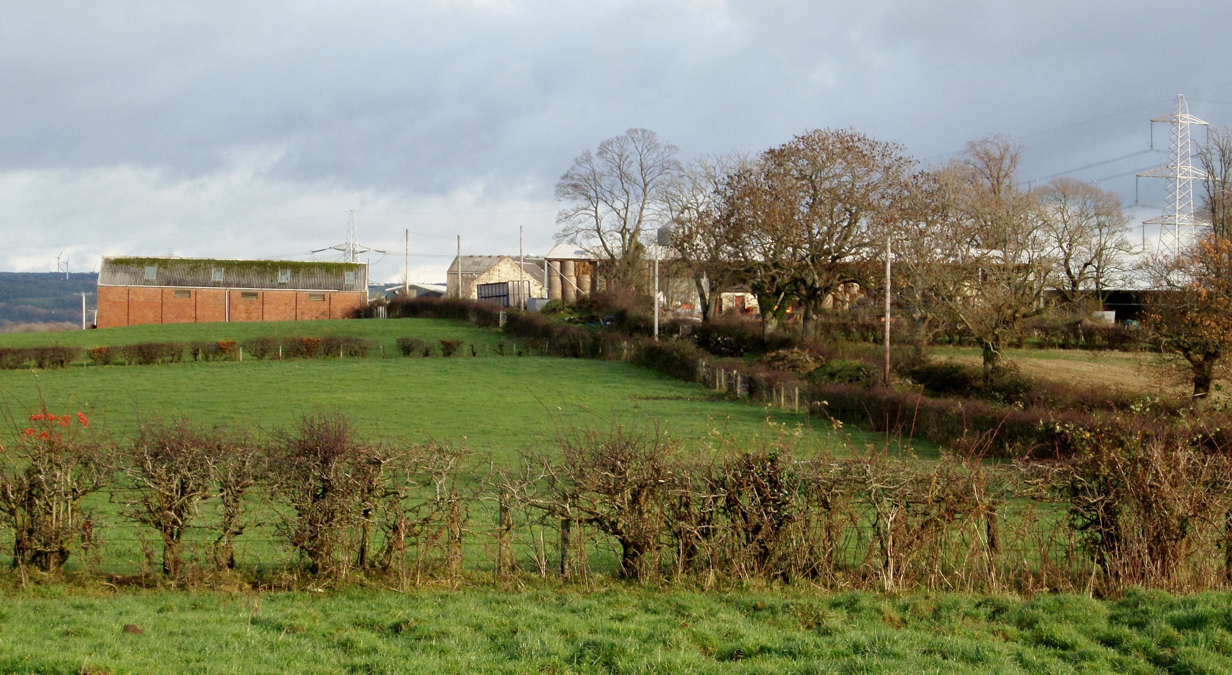 Haining Mains Farm from the old Greenhead Cottage, Haining Place, Hurlford, East Ayrshire, Scotland.